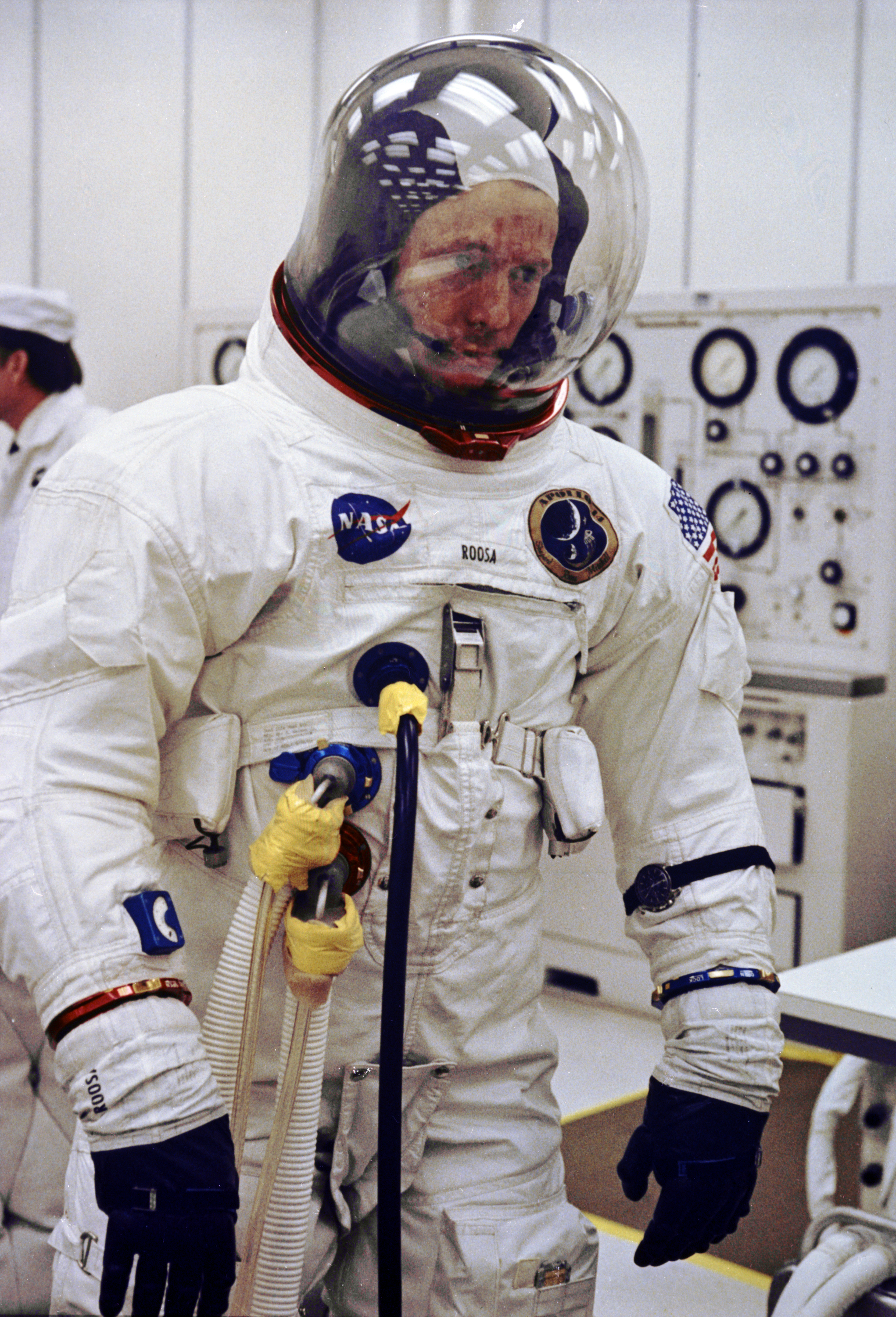 NASA astronaut Stuart A. Roosa, Apollo 14 Command Module Pilot (CMP), undergoes a space suit check prior to the launch of the Apollo 14 mission to the moon on January 31, 1971.